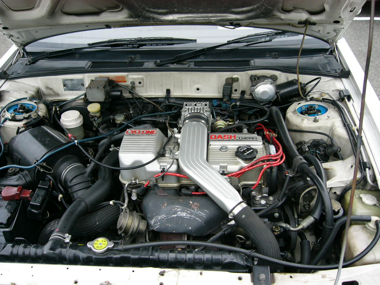 SIRIUS DASH 3x2 G63B engine is mounted on a five-generation Mitsubishi Galant Σ. For front wheel drive transverse engine, the name has been changed to a Cyclone DASH.